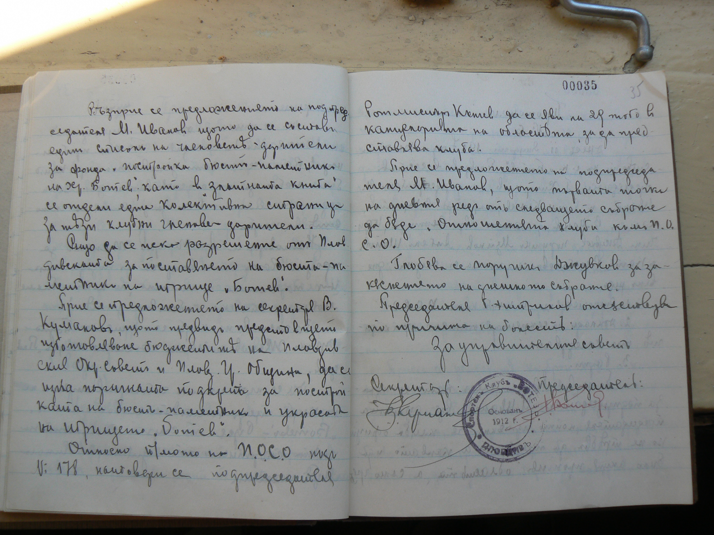 Page 35 from oldest preserved Protocol book of FC Botev Plovdiv, owned by Regional History Museum Plovdiv